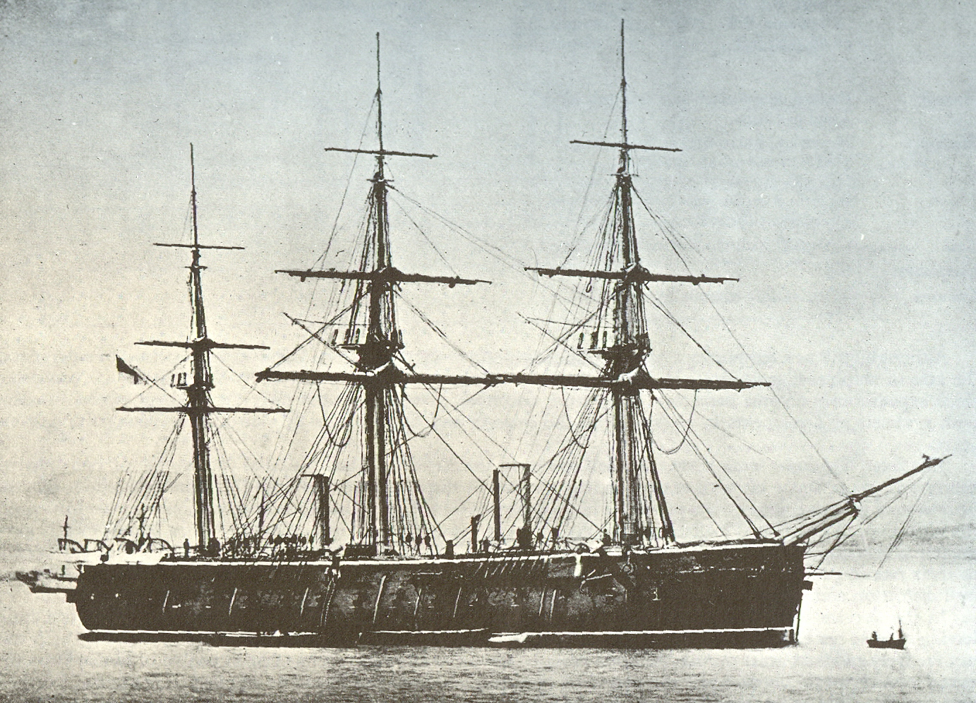 British ironclad battleship Ocean photographed in 1868.